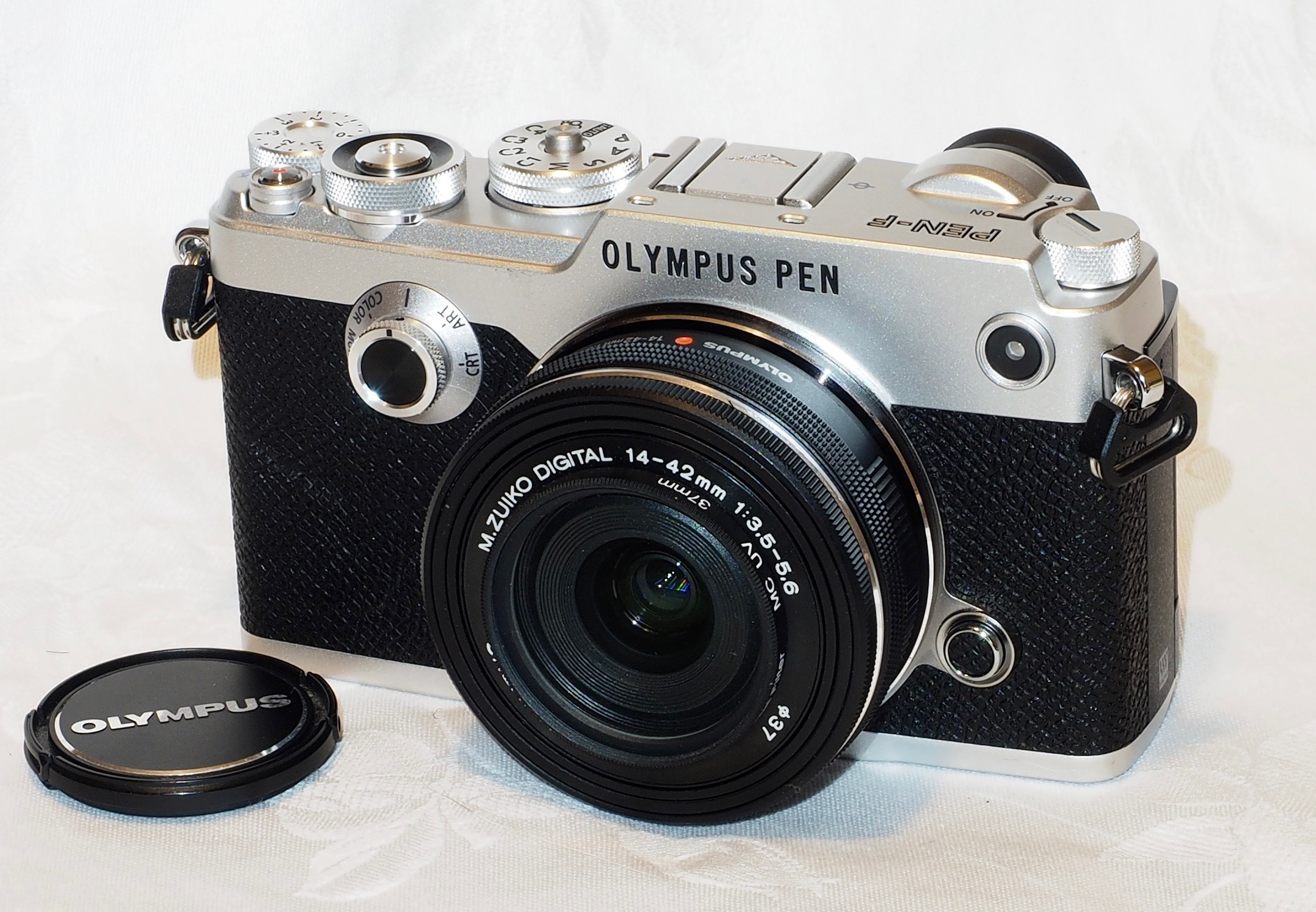 Olympus Pen F digital camera